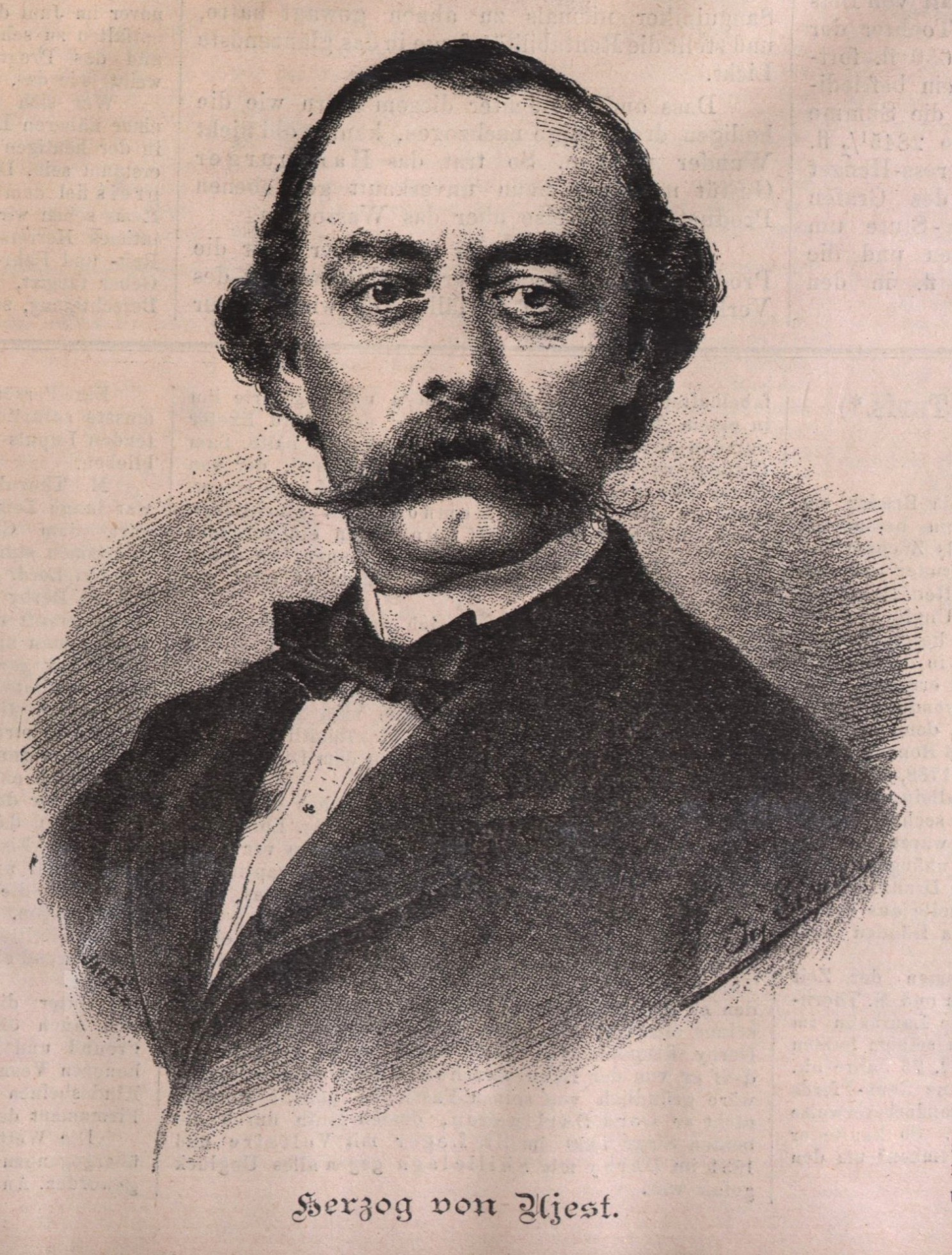 Portrait of Hugo zu Hohenlohe-Öhringen (1816-1897), captioned as Friedrich Wilhelm Eugen Karl Hugo Herzog von Ujest, German general and politician.